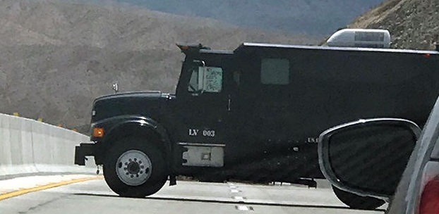 Matthew Wright’s armored vehicle used to block a bridge over the Hoover Dam in Nevada. Included in the 2019 Terrorism Assessment